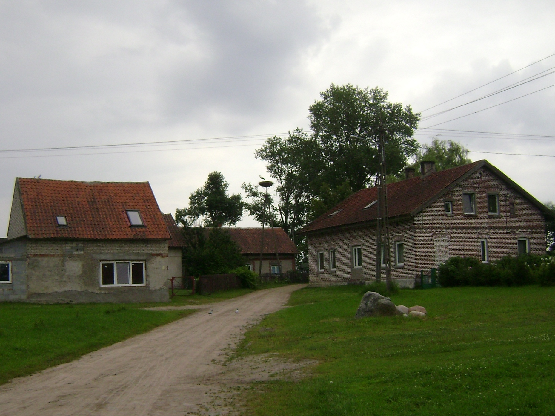 Poland. Gmina Pasym. Narajty Village